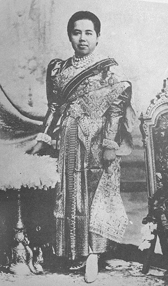 Queen Saovabha Phongsri Queen mather of Siam